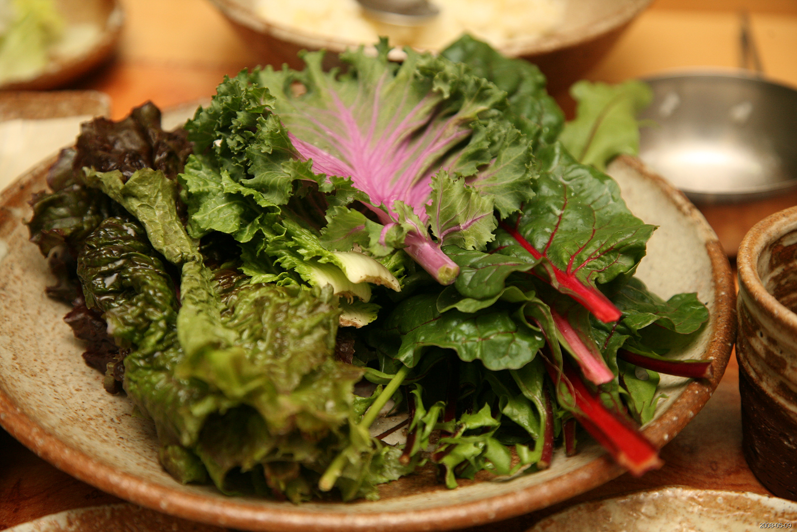 A view of Gyeongju, North Gyeongsang province, South Korea